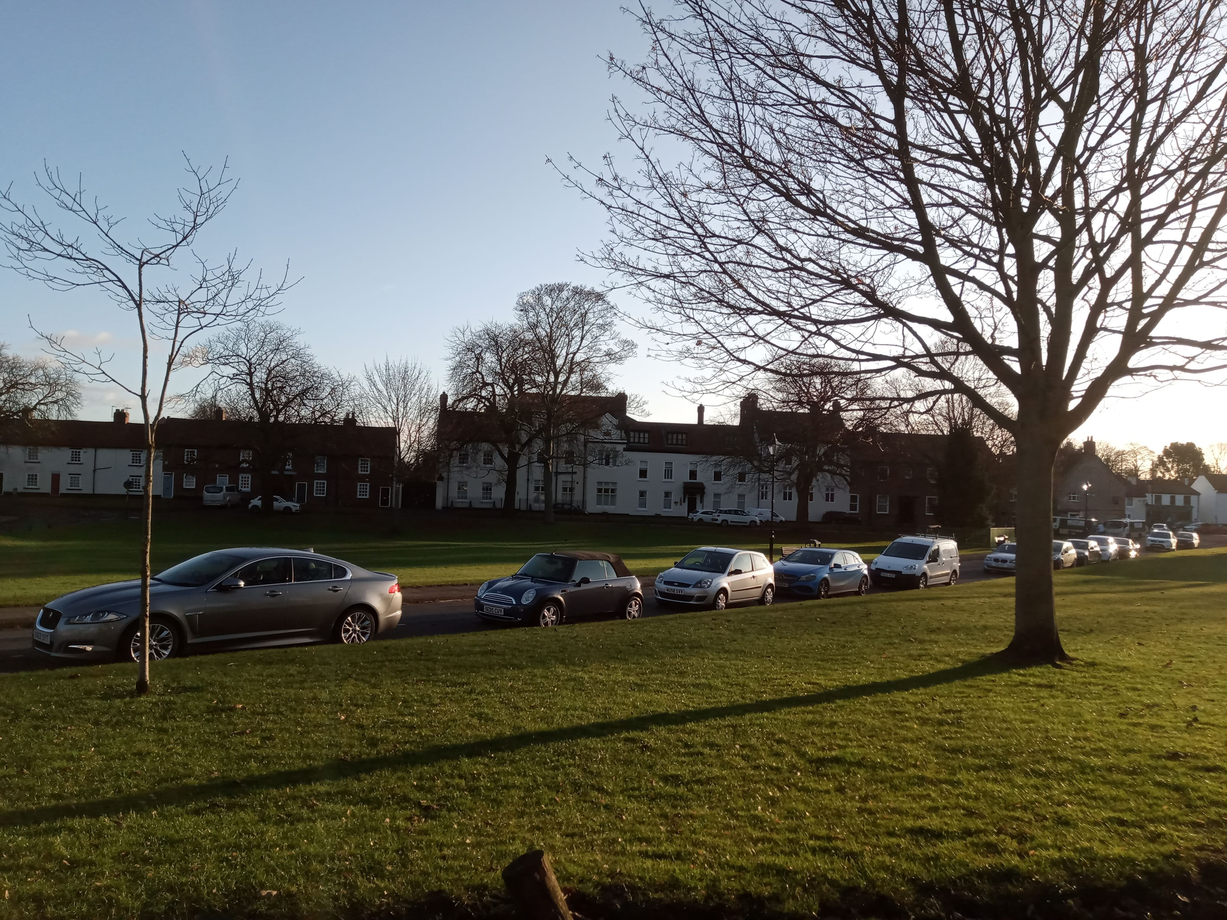 Stockton on Tees